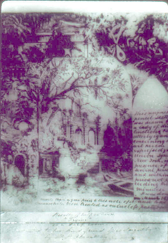 A facsimile reproduction of a precipitation made by H.P.B. in March 1874. The handwriting on the right hand side of the drawing was added by someone, and reads as follows: This unfinished pencil sketch was drawn by a lady of distinction, but utterly ignorant concerning the art hereon expressed, at Union Square, New York, in the presence of several persons and within a period of not exceeding 30 minutes. This was done on March 1874, more than a year prior to this note of it and has meanwhile been treated as valueless paste-board. Below the precipitation H.P.B. wrote the following message: "Result of half an hour's "Trying" in the dark room. Presented to her kind friends Epes Sergeant by H.P. Blavatsky."